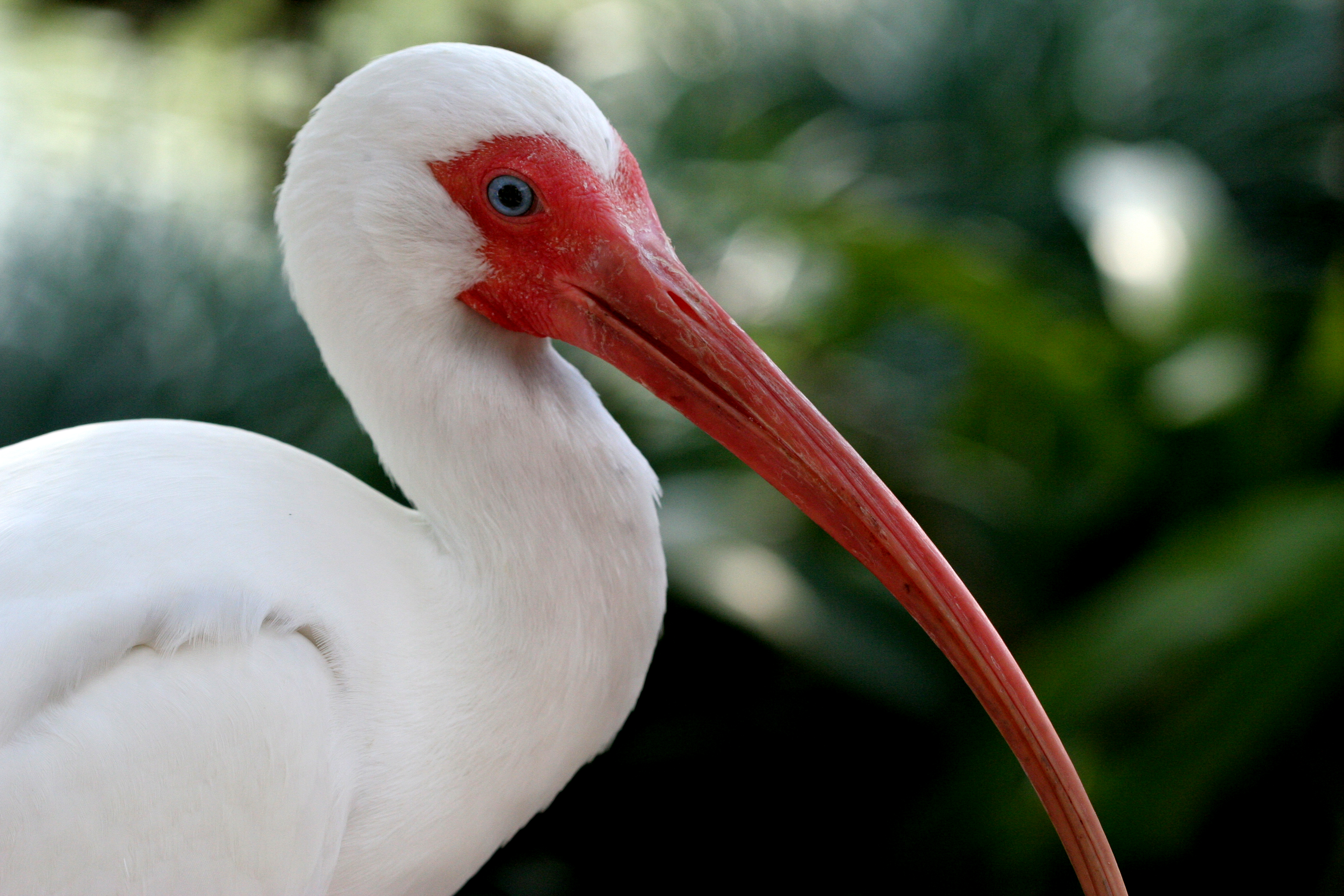 This is a picture of an Ibis in the Florida Metro Zoo.